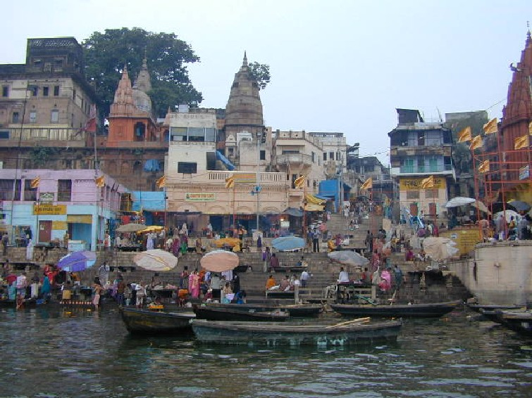 Hindu culture, have attributed supreme importance to the preservation of tradition Classical civilizations, and especially the Indian one, have attributed supreme importance to the preservation of tradition. Its central idea was that social institutions, scientific knowledge and technological applications need to use "heritage" as a "resource". Using contemporary language, we would say that ancient Indians considered, as social resources, both economic assets (like natural resources and their exploitation structure) and factors promoting social integration (like institutions for preserving knowledge and maintaining civil order). Ethics considered that what had been inherited should not be consumed, but should be handed over, possibly enriched, to successive generations. This was a moral imperative for all, except in the final life stage of sannyasa